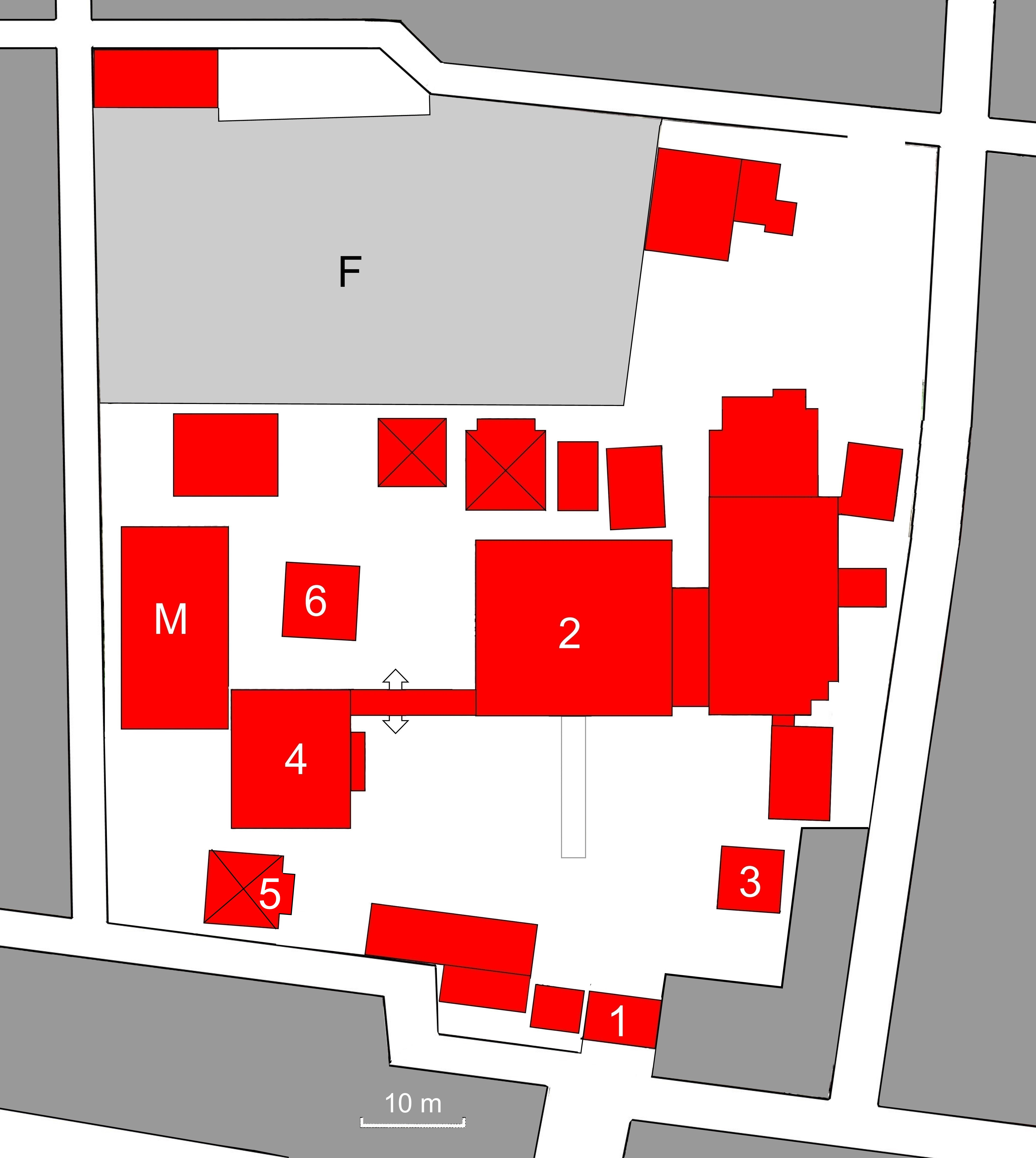 Layout of Kagaku-ji temple at Ako, Hyogo prefecture, Japan